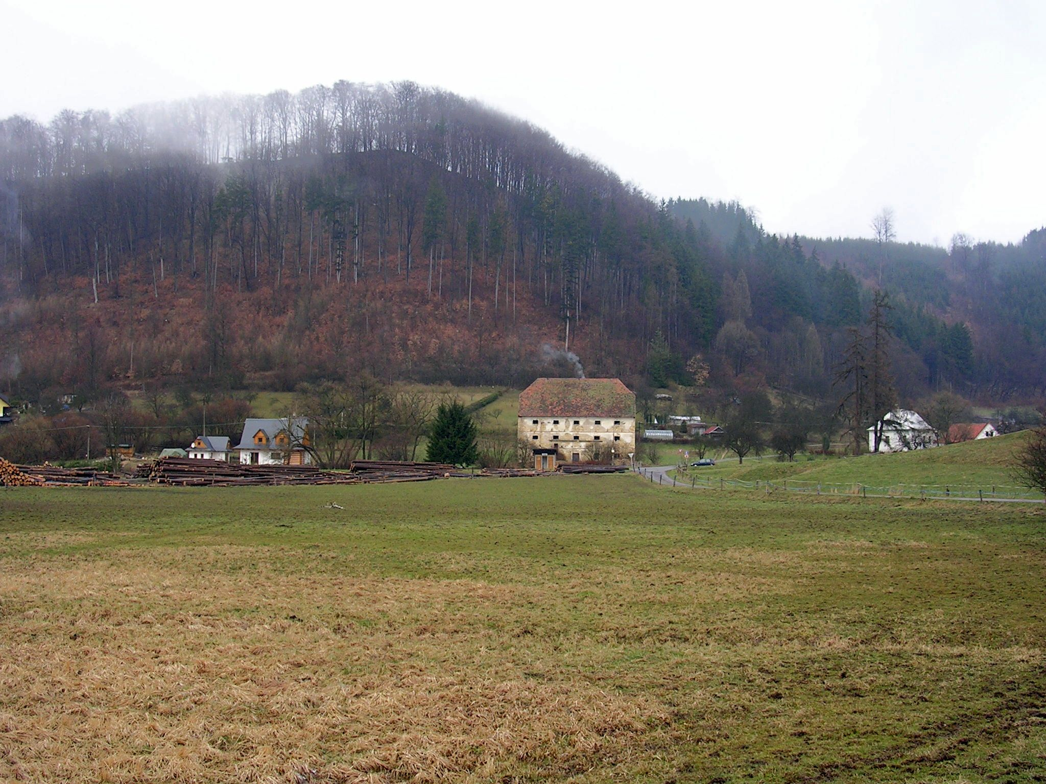 Perná, Orlické Podhůří, the Czech Republic.